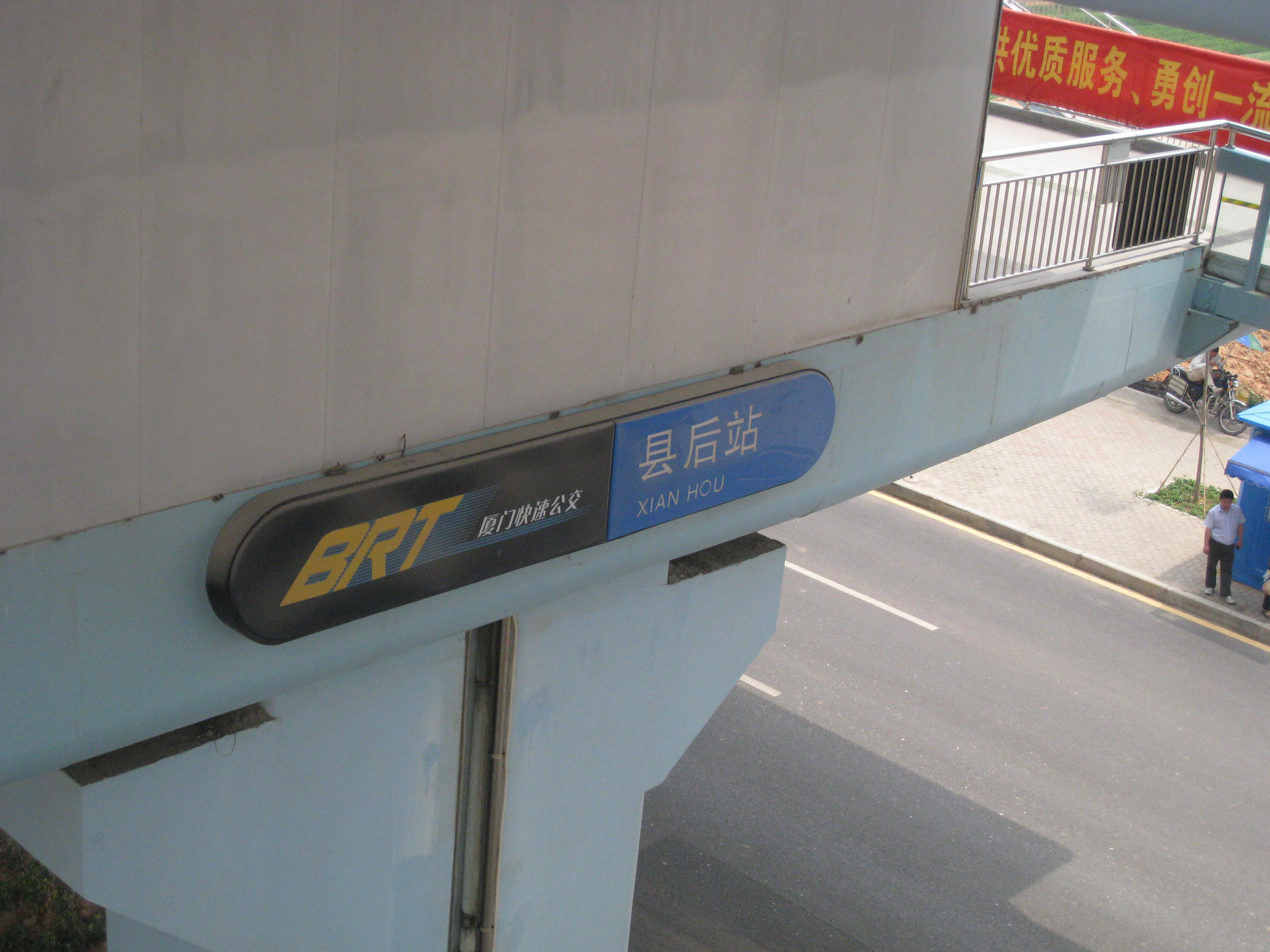 Xiamen BRT - Xian Hou Station (Line 1 and 2)